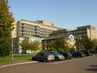 {A photo I took of the south side of Addenbrooke's Hospital from Robinson Way.}